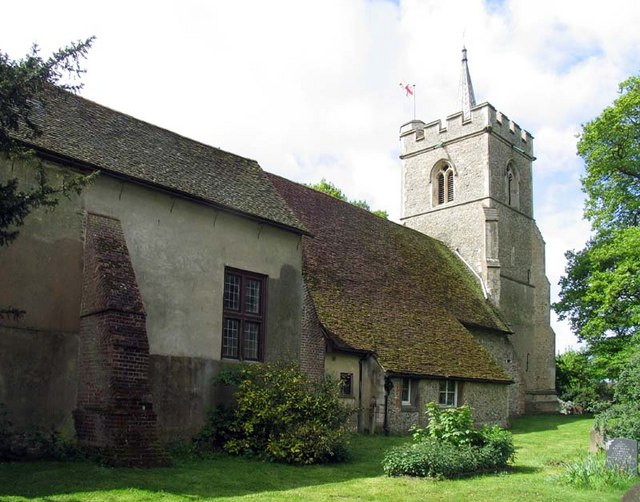 St Mary & St Thomas, Knebworth, Herts